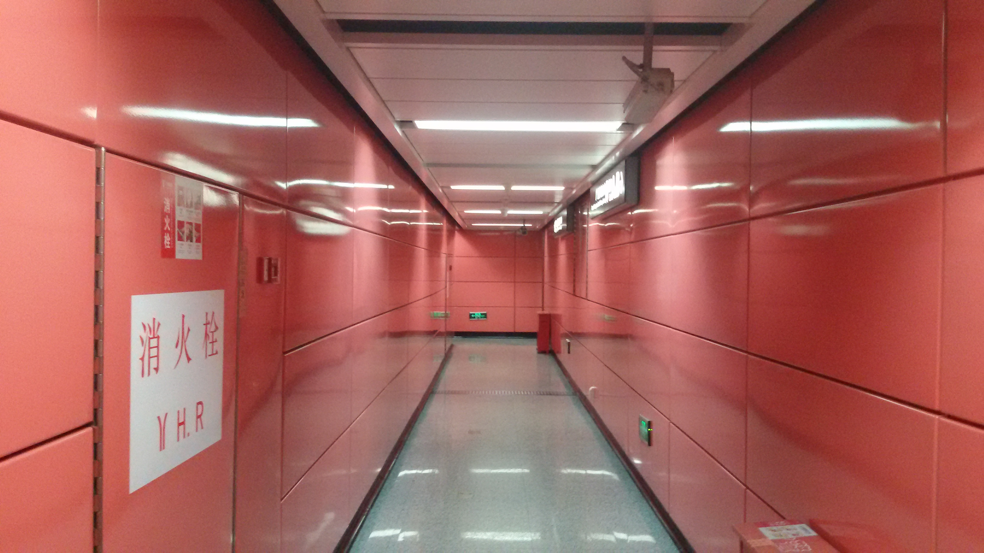 Connecting passage for Baiyun Culture Square Station in Guangzhou Metro (IN THE PAID AREA AT NORTHERN PLACE)